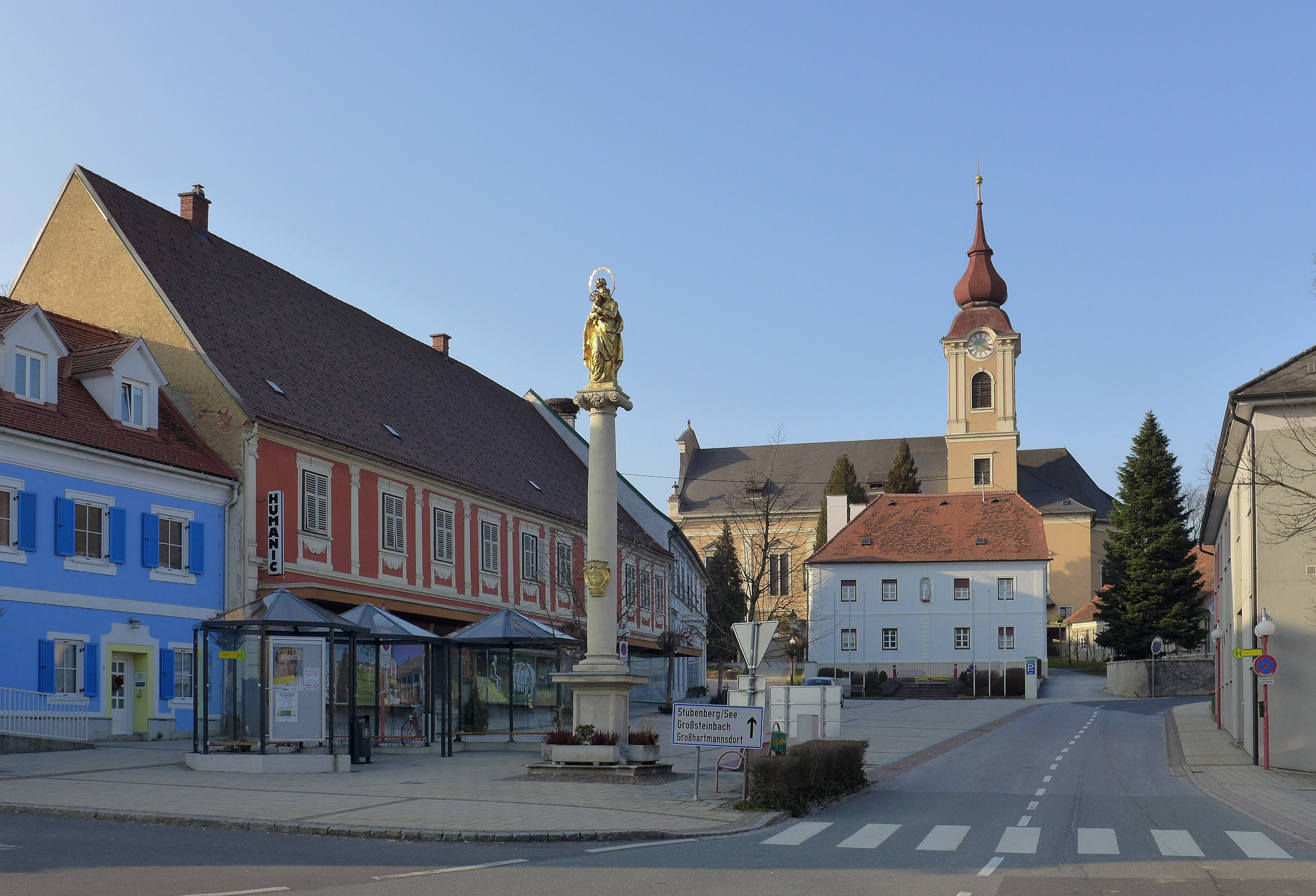 Main square with parish church and Marian column, Ilz, Styria, Austria